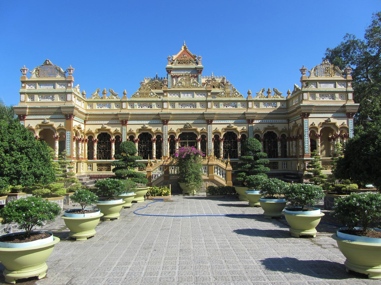 Vinh Trang Pagoda near My Tho